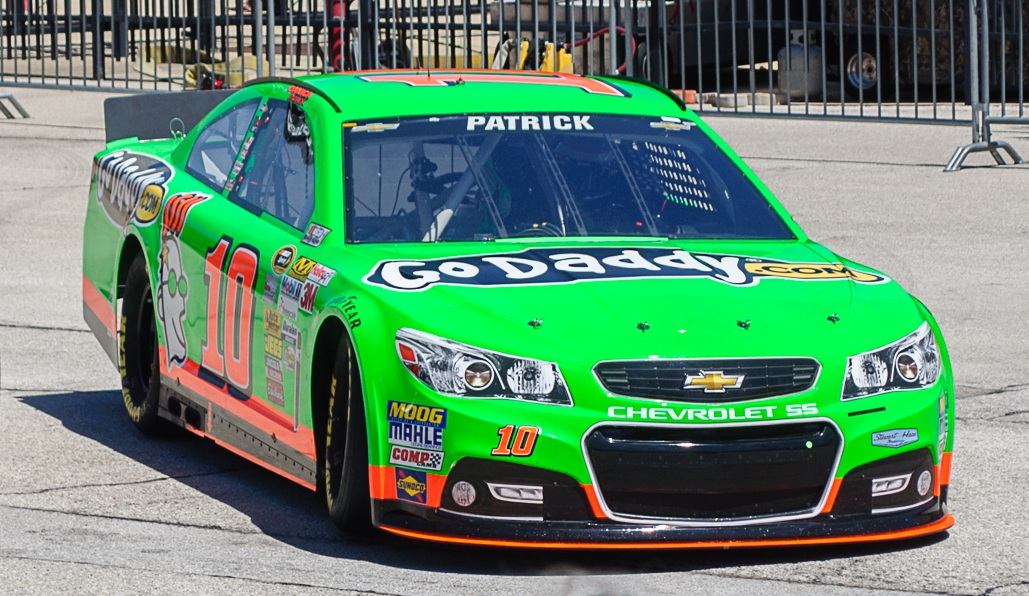 Danica Patrick drives the No. 10 Chevrolet through the garage at Texas Motor Speedway during practice for the 2013 NRA 500.